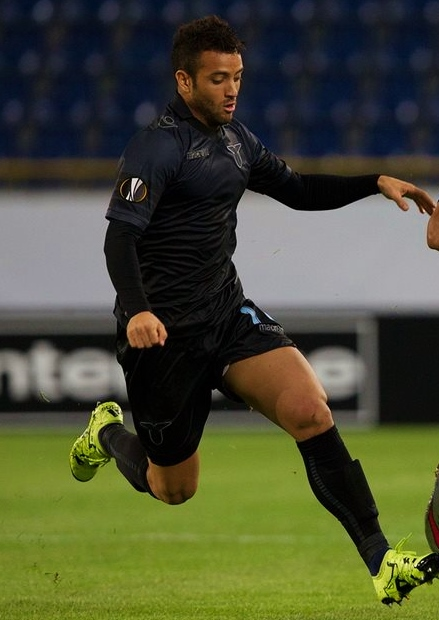 Felipe Anderson